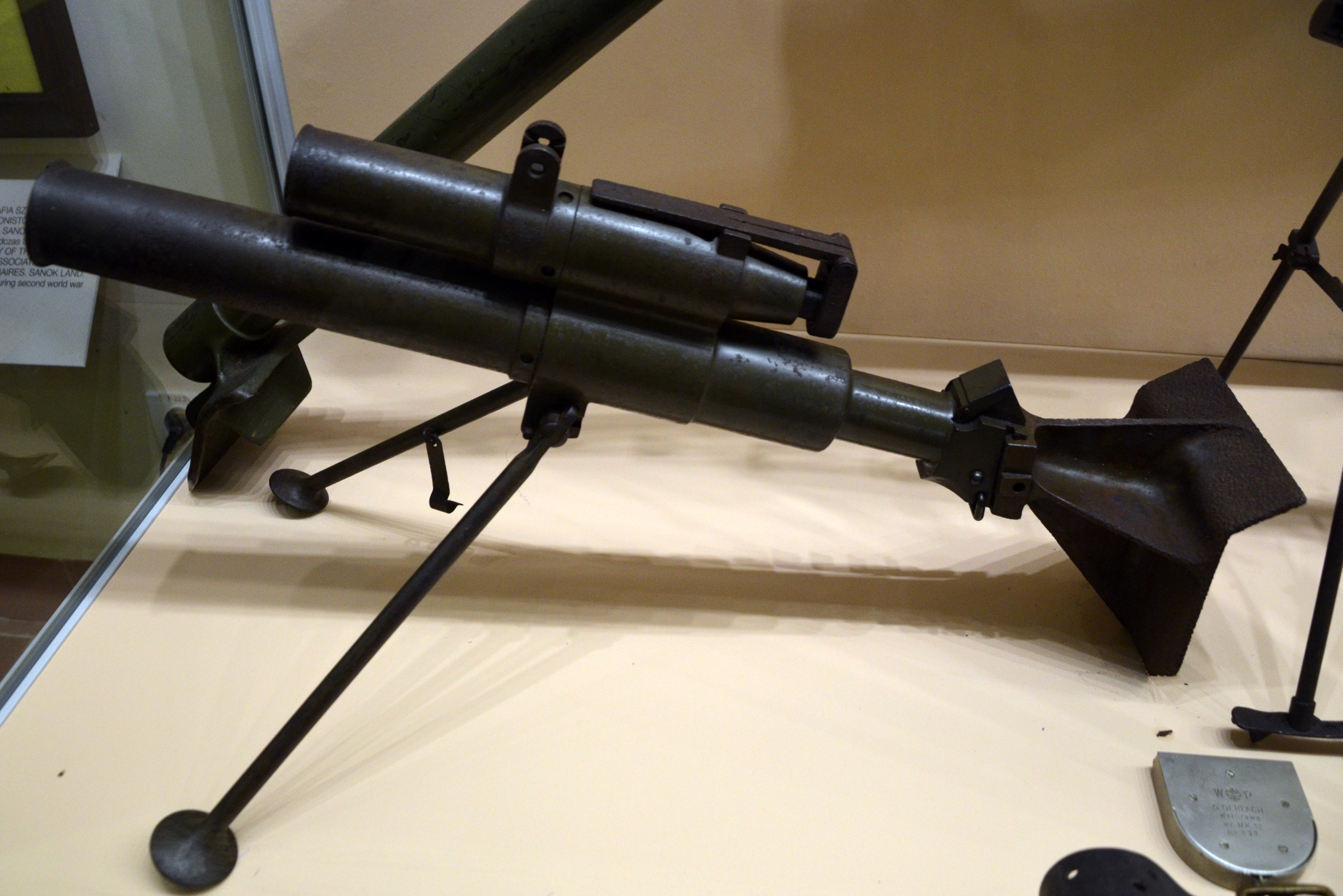 Waffen in der Zweiten Polnischen Republik 1918-1939